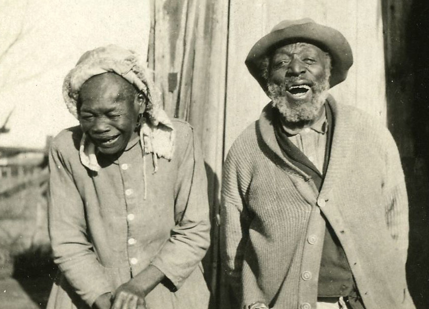 Old African-American sharecroppers couple, Oklahoma, 1914. I found this in a box of photos that Dad sent to his folks .